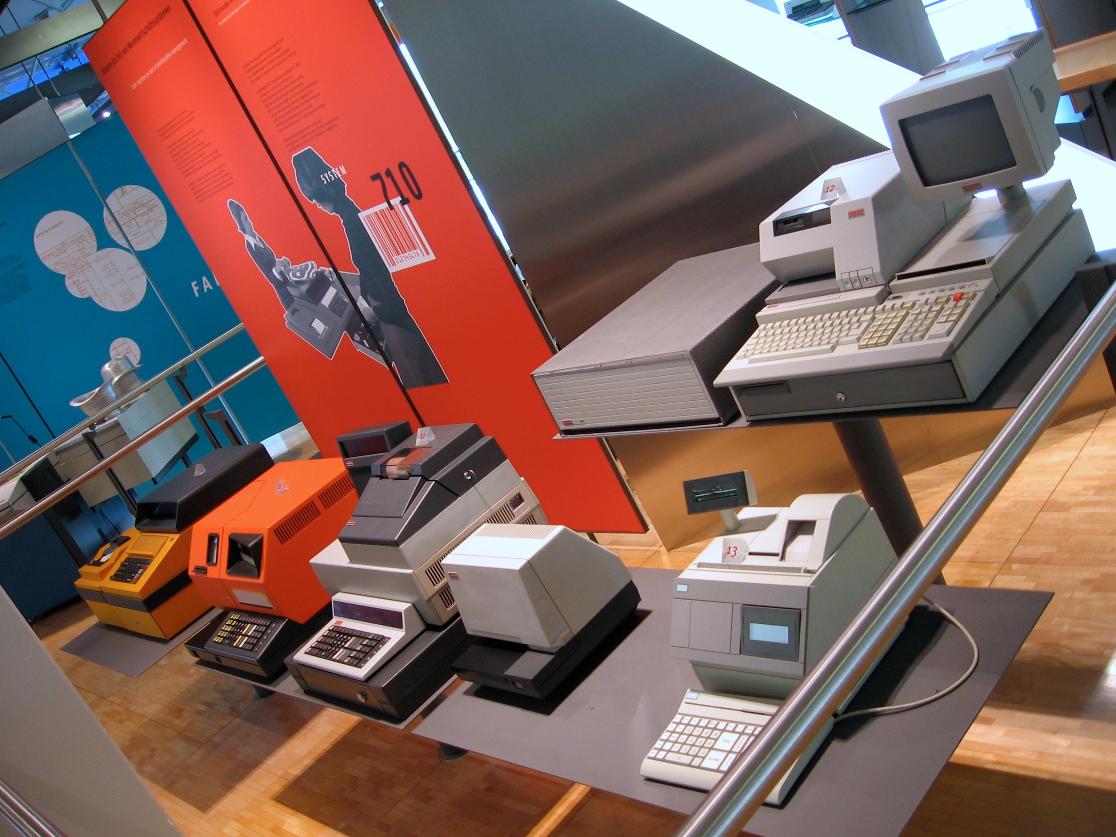 Various types of cash registers in a computer museum in Germany